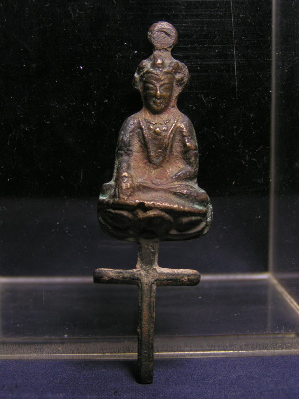 Nestorian Christian relic from Imperial China, a bodhisattva-like figurine seated on a cross, probably Yüen dynasty (1271–1368).